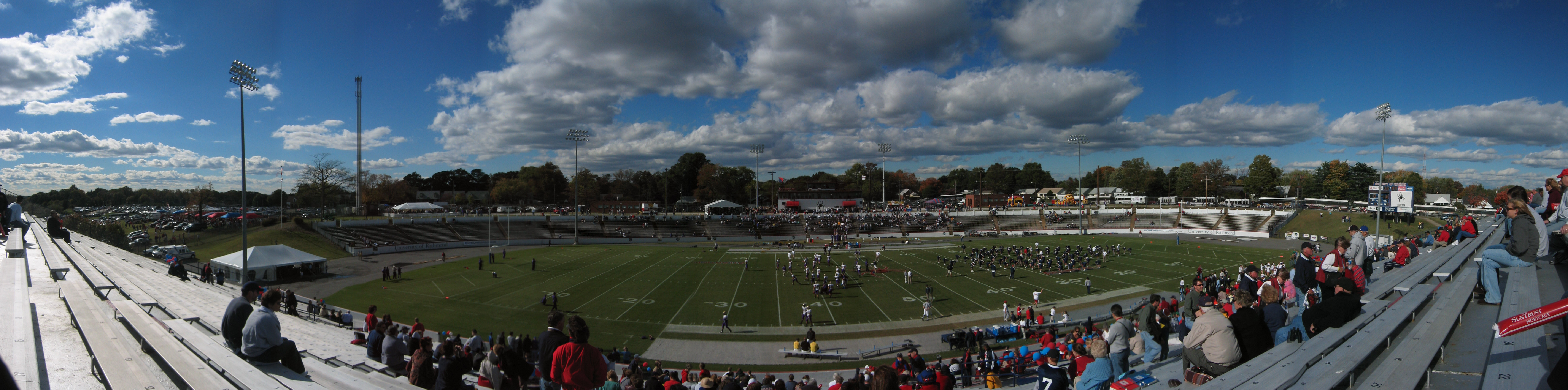 University of Richmond Stadium